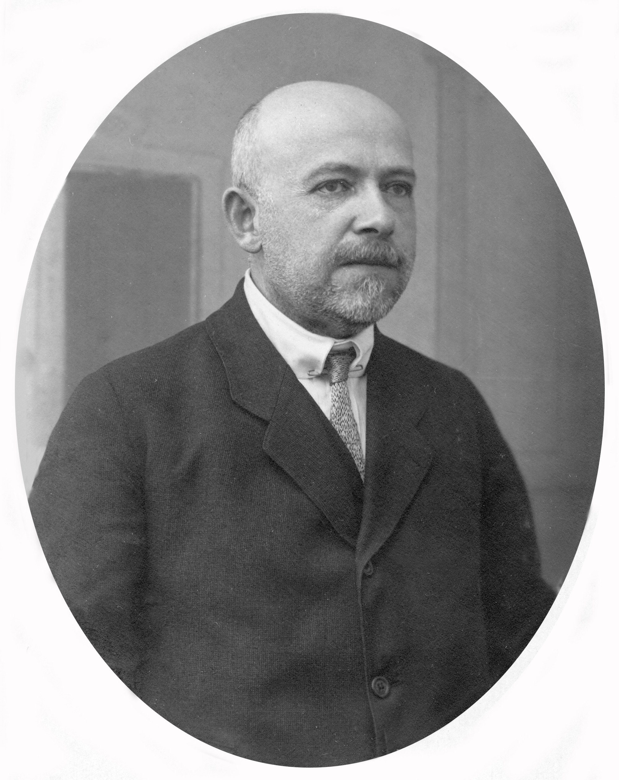 Josef Geitler, Ritter von Armingen, (1870-1923)